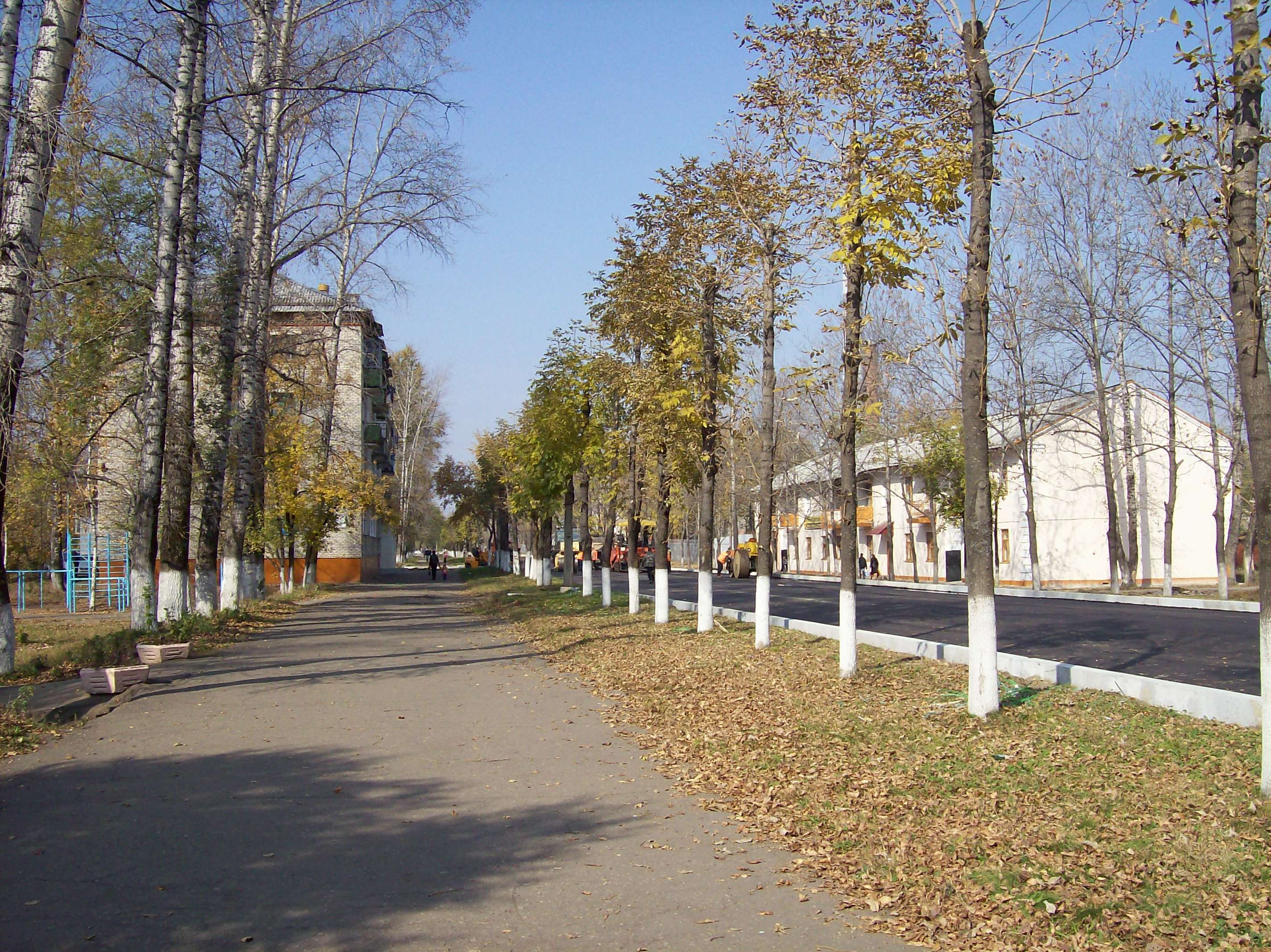 Birobidzhan